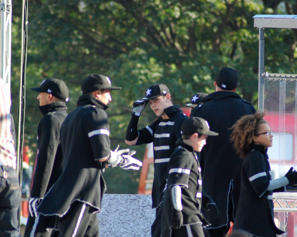 Diversity, Thames Festival 2009